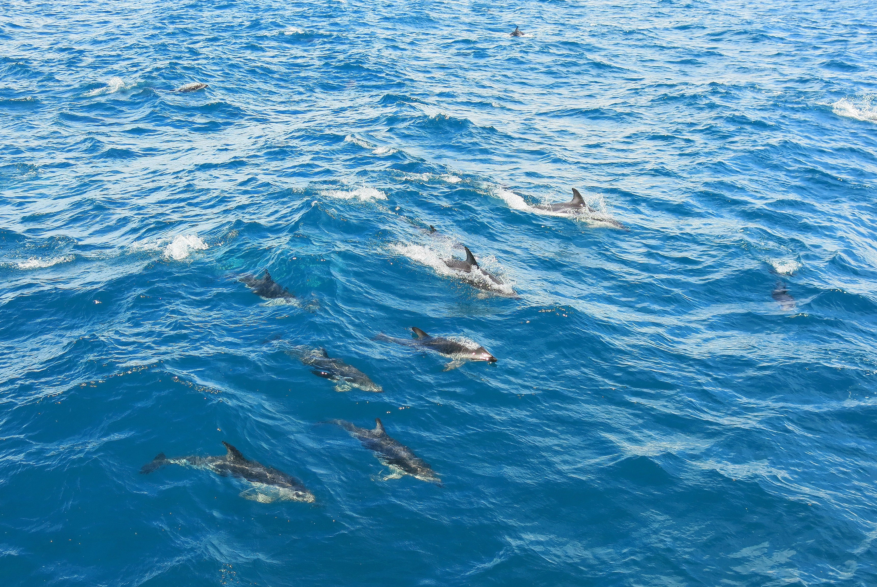 School of delphins near Kaikoura